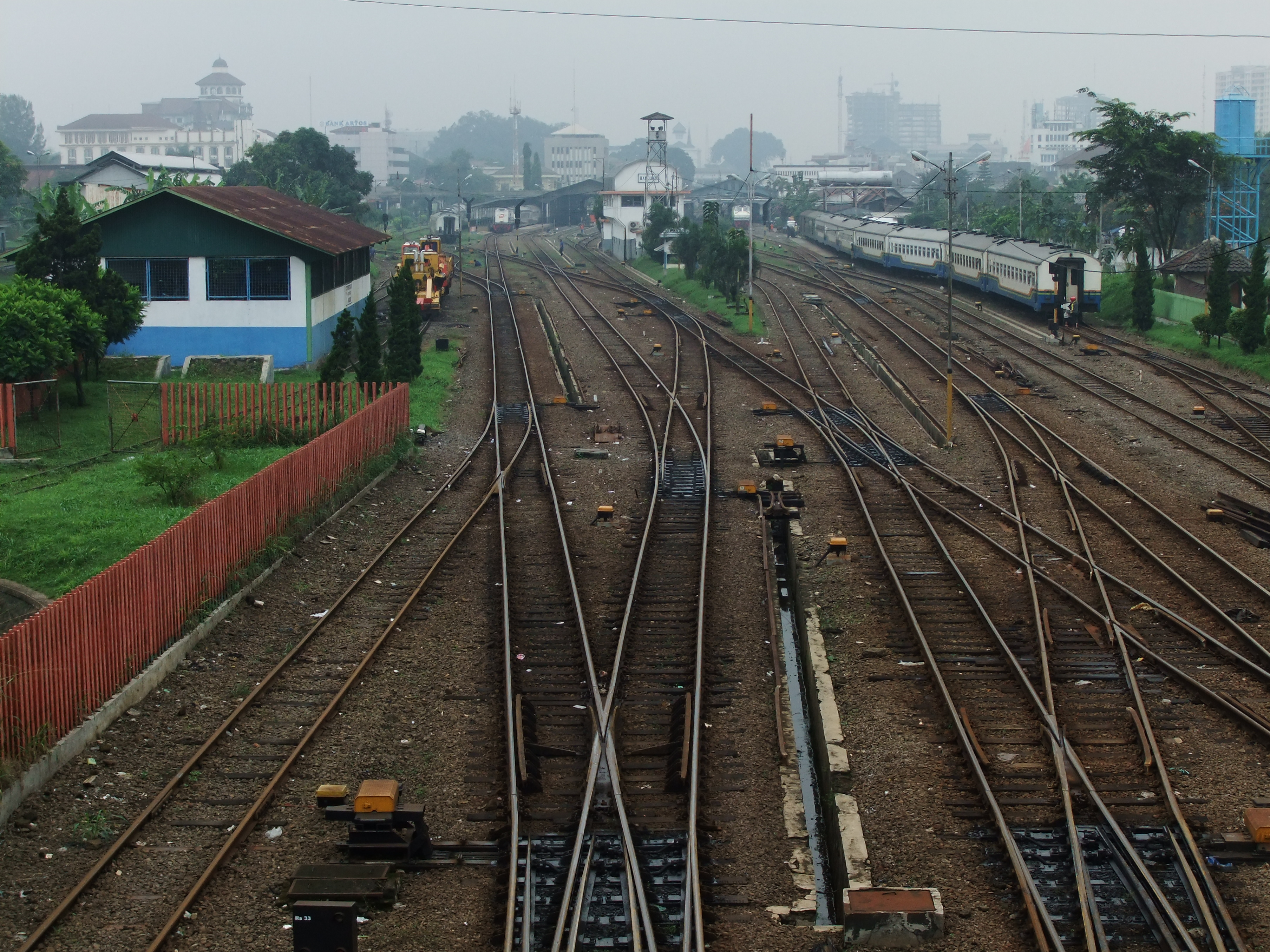 Railroad tracks, Bandung Station, seen from Jalan H.O.S. Cokroaminoto (Paskal Hypersquare).